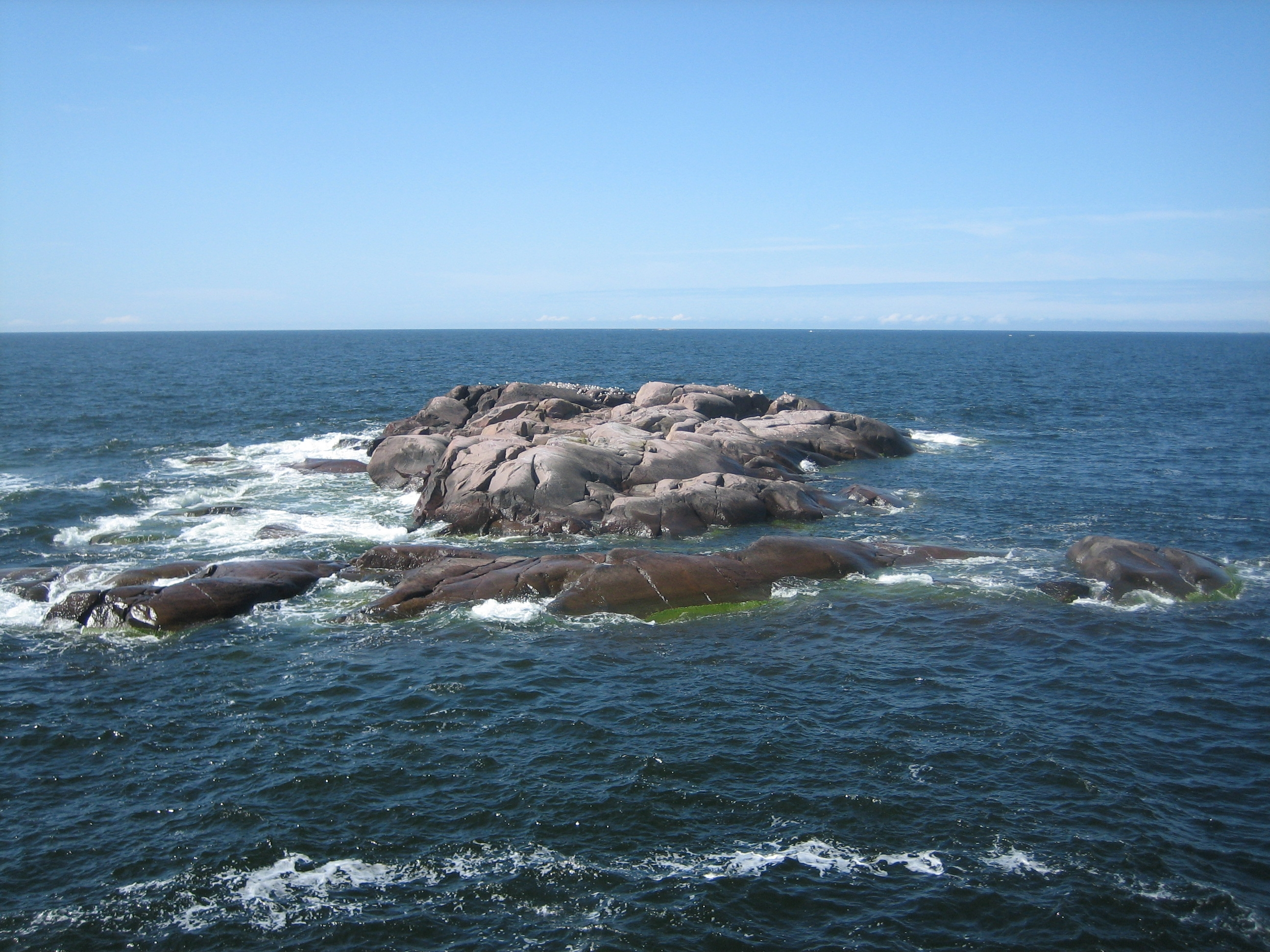 A rock in front of the Bengtskär lighthouse. Common eider is one of the most common birds at this area.